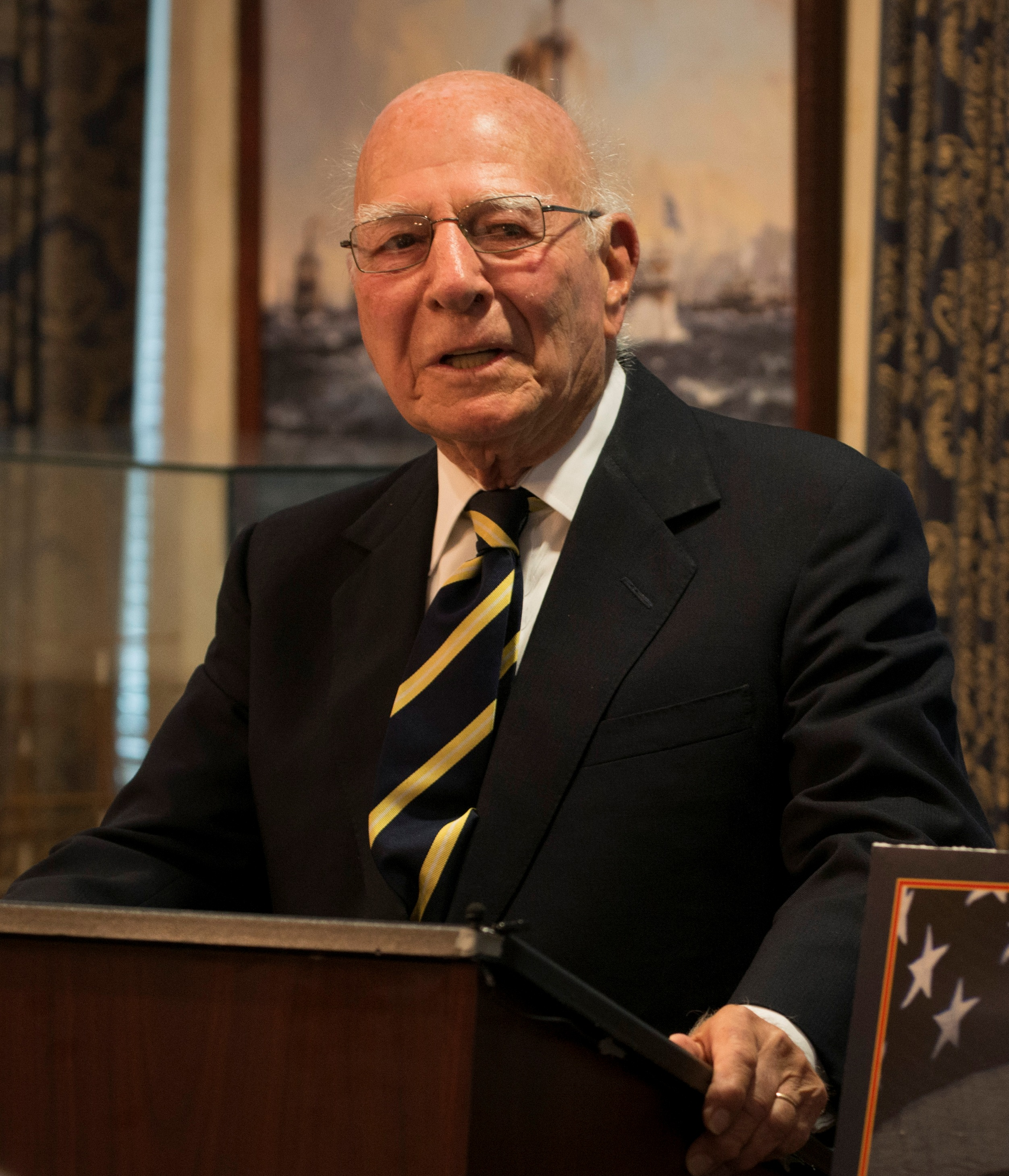 Paul Ignatius on June 11, 2013